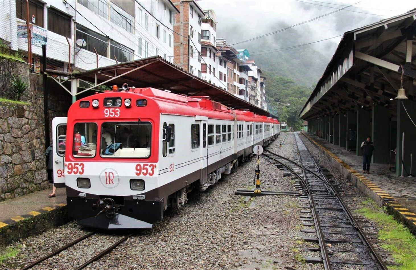 The two Class 950 DMUs of Inca Rail, purchased third-hand from FEVE (from FGC), at the Aguas Calientes station.